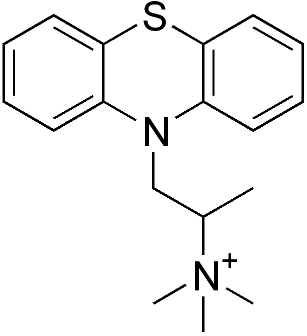 chemical structure of thiazinamium